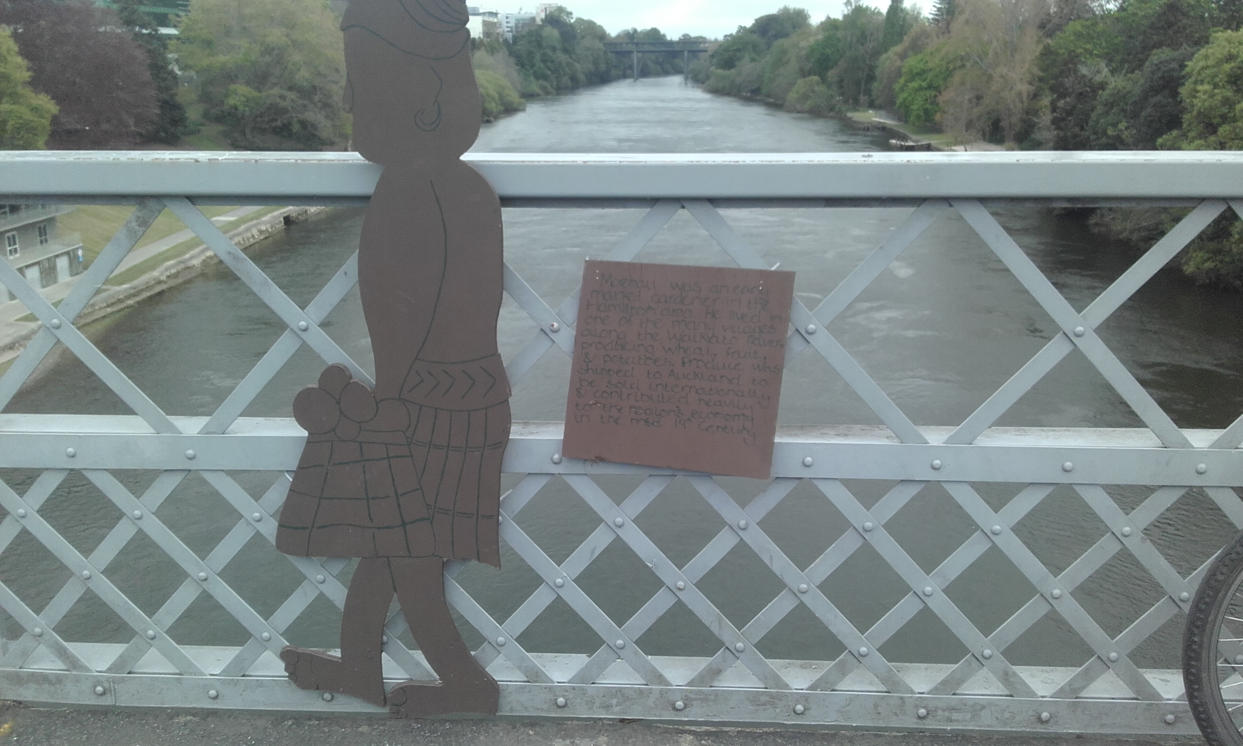 Protest installation art on Victoria Bridge, Hamilton